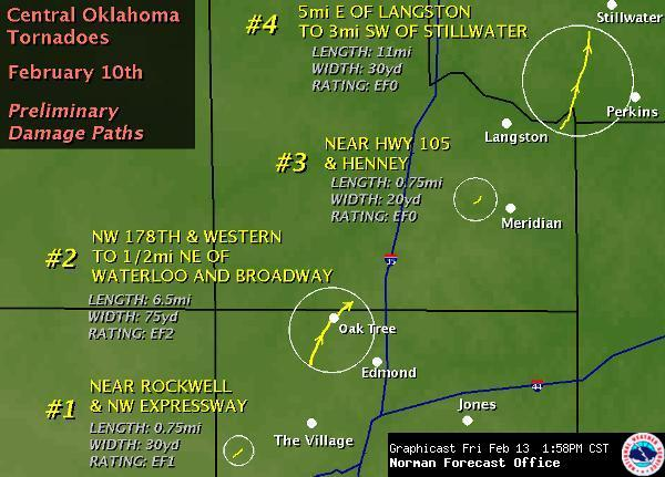 Tracks of Central Oklahoma tornadoes on February 10, 2009